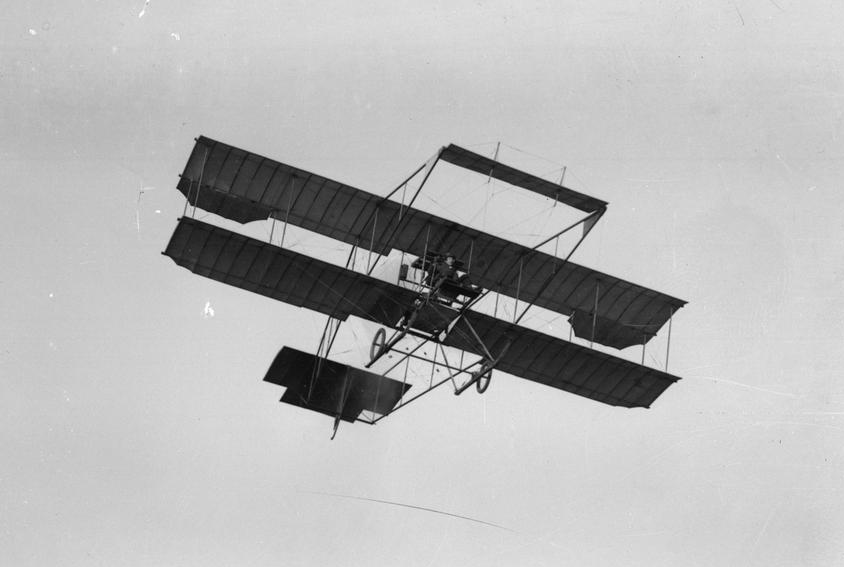 Aviation in Britain Before the First World War A De Havilland biplane about to fly overhead.